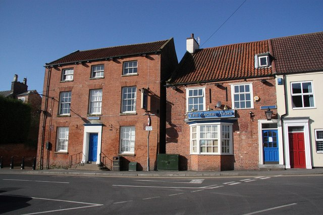 Laceby village centre On the left is the former Waterloo Inn, on the right is the Laceby Arms ... in the centre of Laceby